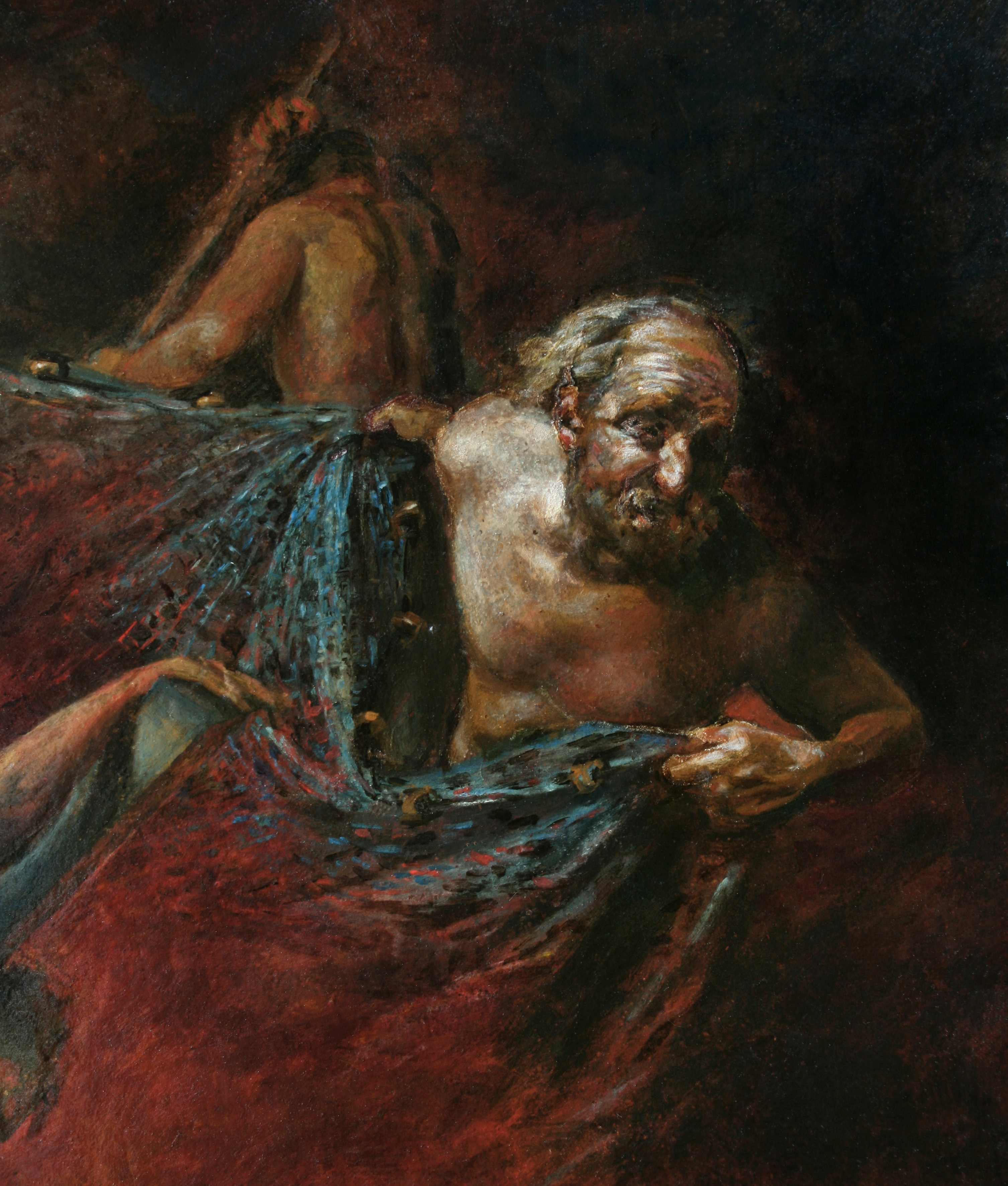 A fragment of a picture "Choice. Take up his cross and carry". 2006, oil on Canvas. 60×50. Artist A. N. Mironov